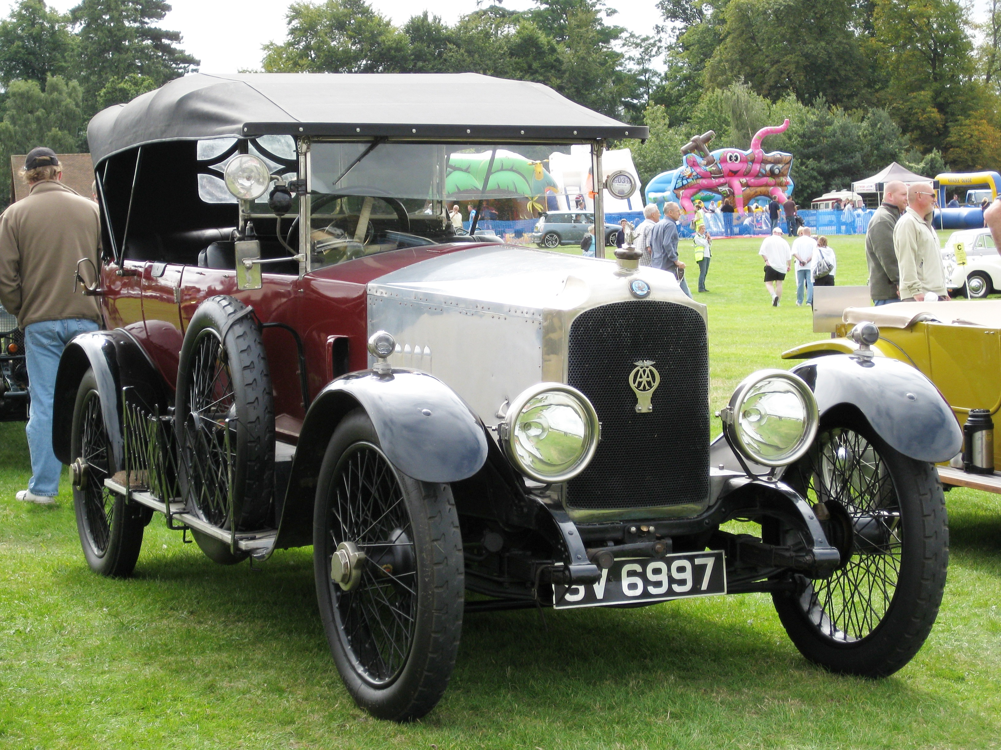 Vauxhall sedan with Torpedo style bodywork. Engine capacity 3970cc suggests this is a Vauxhall D Type